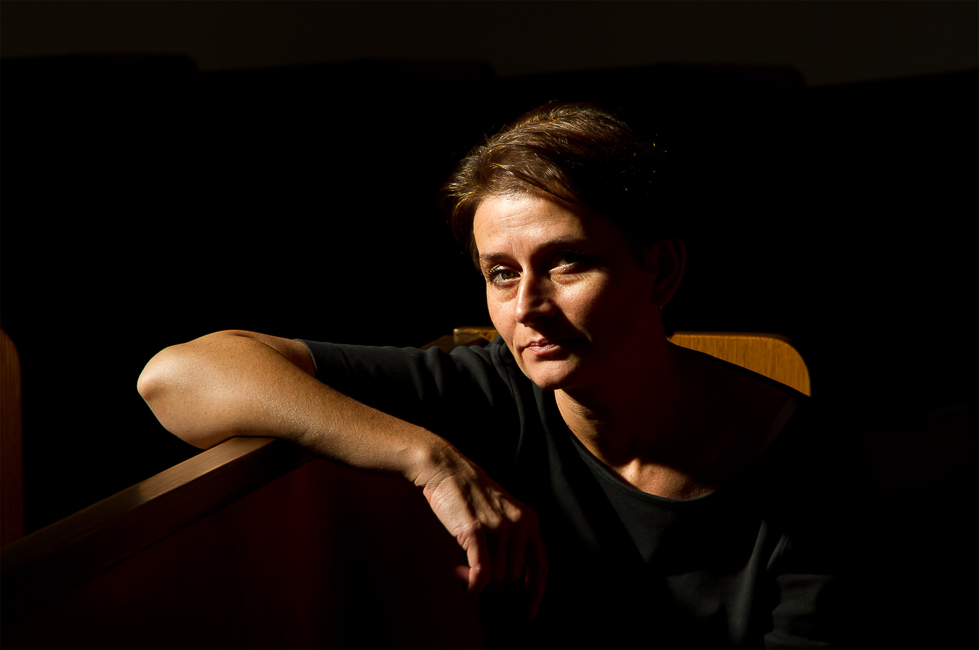 Jan Paclik photography Martina Hozová sculptor